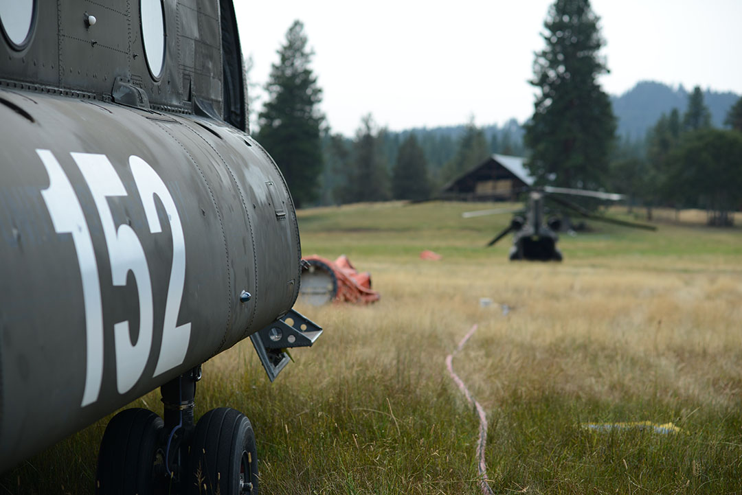 An Oregon Army National Guard CH-47D Chinook helicopter awaits launch instructions at a helibase at the Beaver Complex Fire, near the Oregon-California border, Aug. 4. As part of the overall fire suppression efforts, the Oregon Army National Guard has provided two CH-47 Chinook helicopters and two HH-60M Blackhawk helicopters to assist local authorities with fighting the wildfires